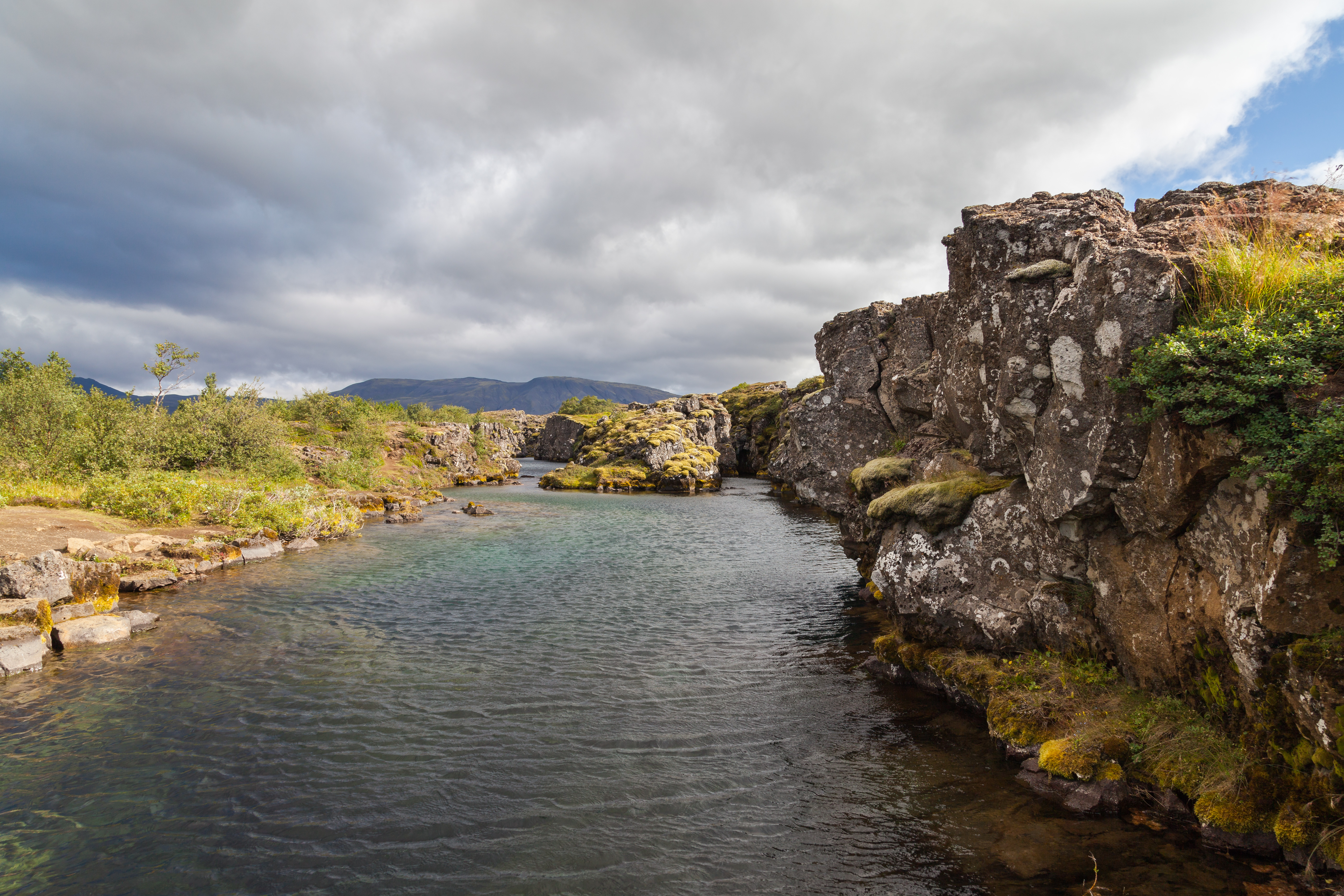 Flosagja canyon, Þingvellir National Park, Suðurland, Iceland